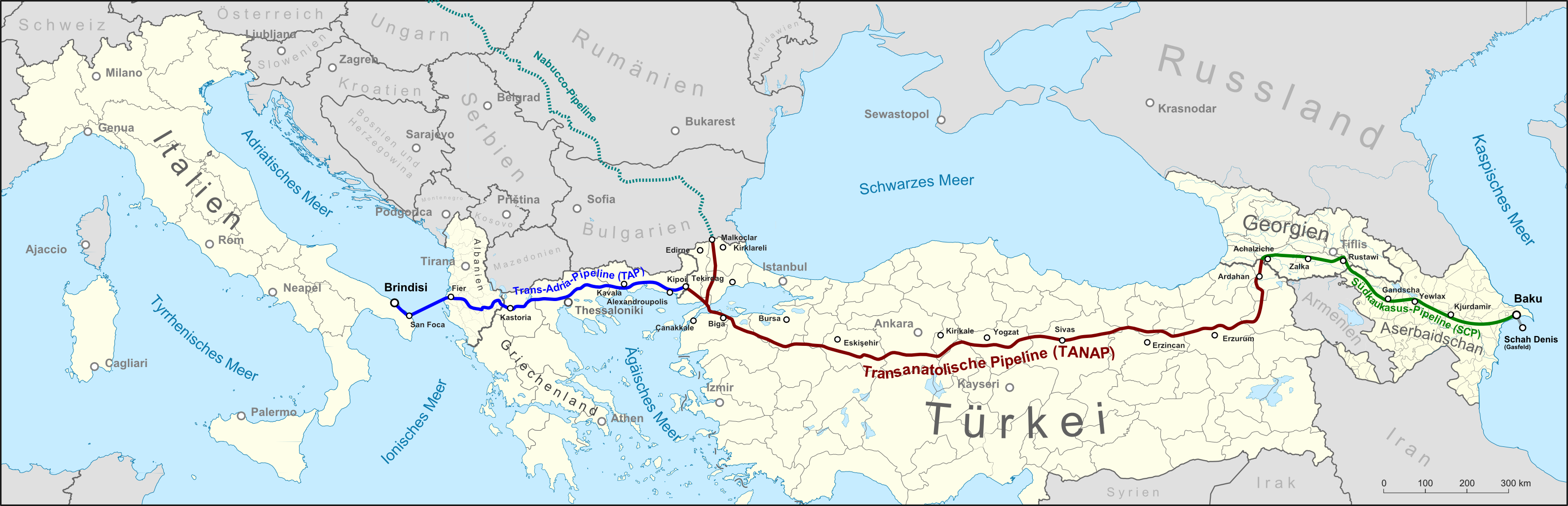 Map showing the location of the Shah Deniz gas field, the route of the South Caucasus Pipeline (SCP), the Trans-Anatolian gas pipeline (TANAP) under construction and the planned Trans Adriatic Pipeline (TAP), as well as the not realized Nabucco pipeline. Text in German